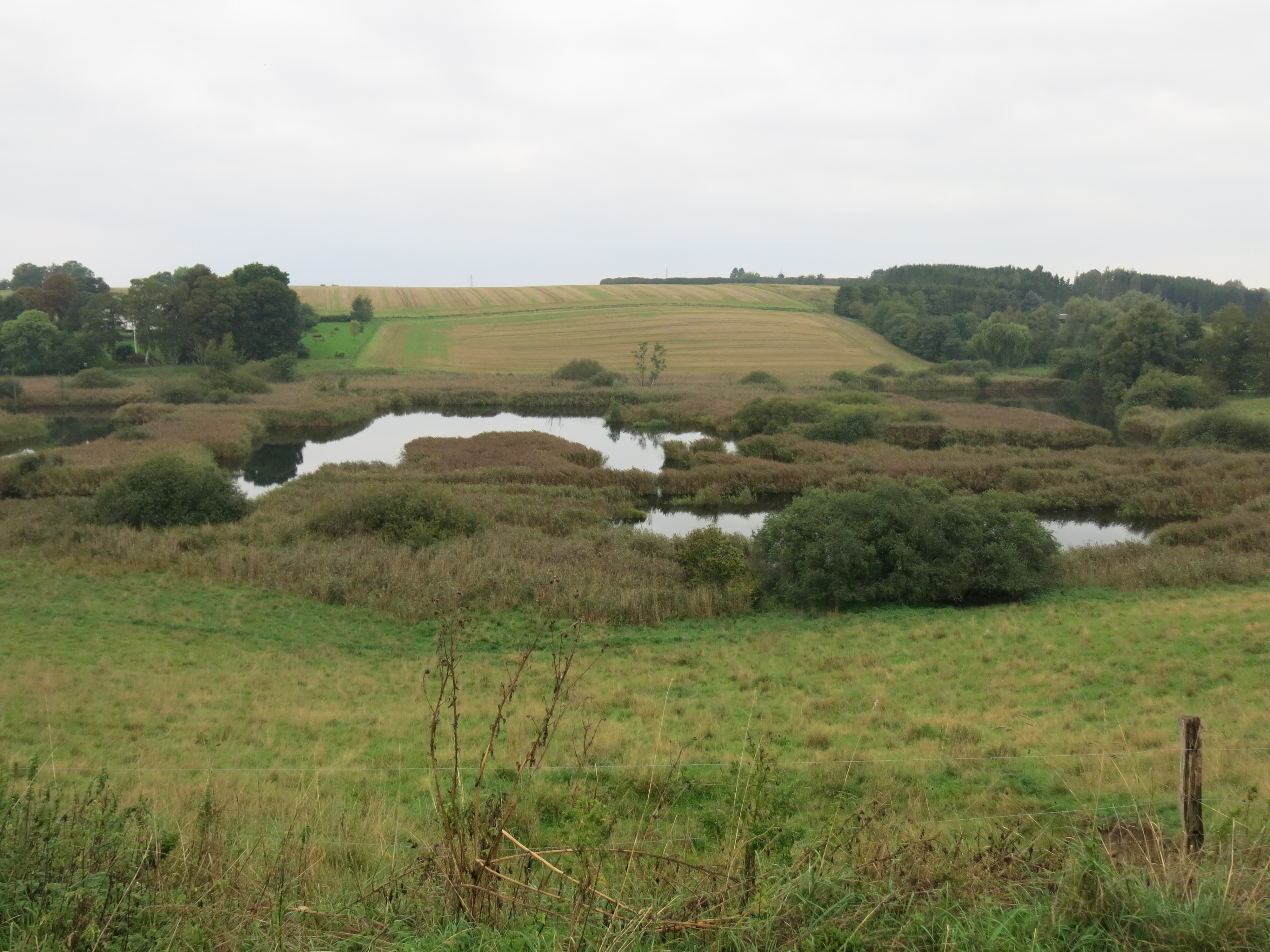 View of Brøns Mose from the north-east conor of the marsh.